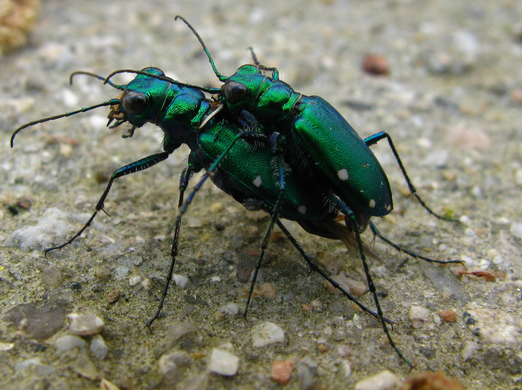 A pair of Cicindela sexguttata mating.